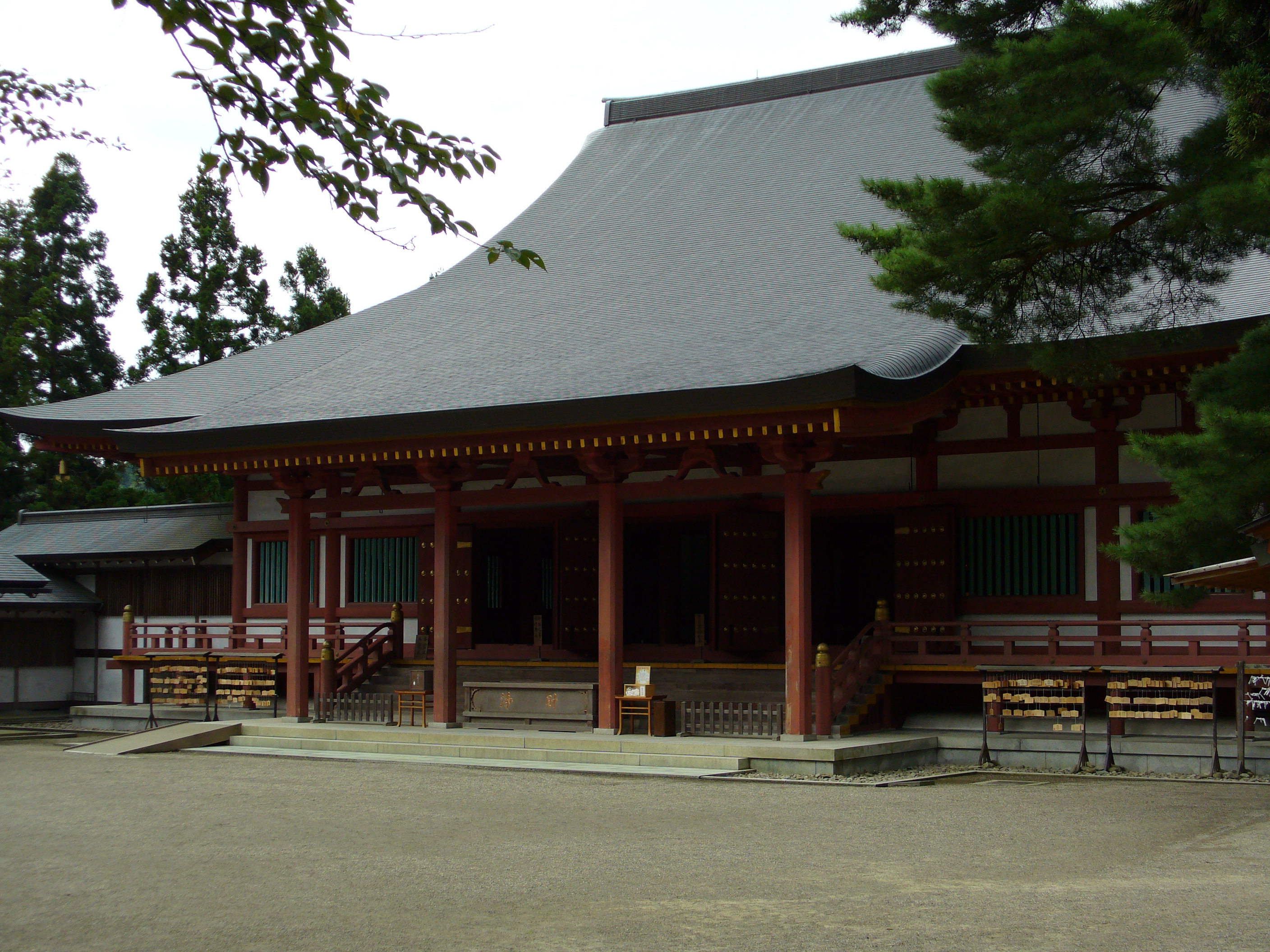 Main Hall of Mōtsū-ji Temple in Hiraizumi, Iwate.